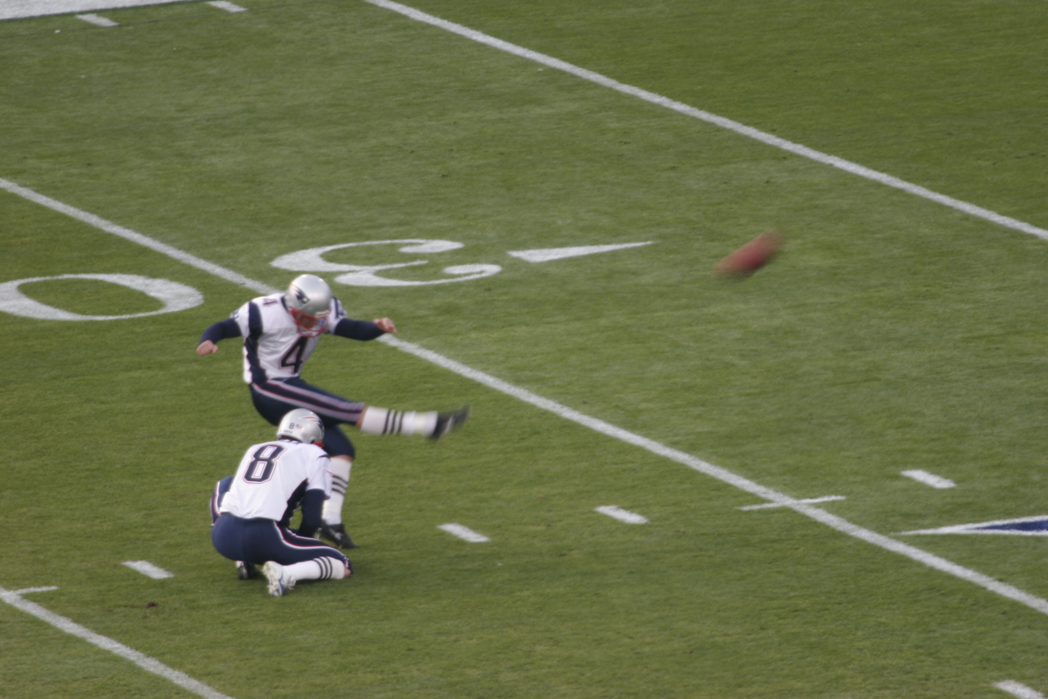 Adam Vinatieri warms up during the pre-game of Super Bowl XXXIX. The Patriots didn't need a last second field goal, but his 22-yard field goal made the difference in the game.